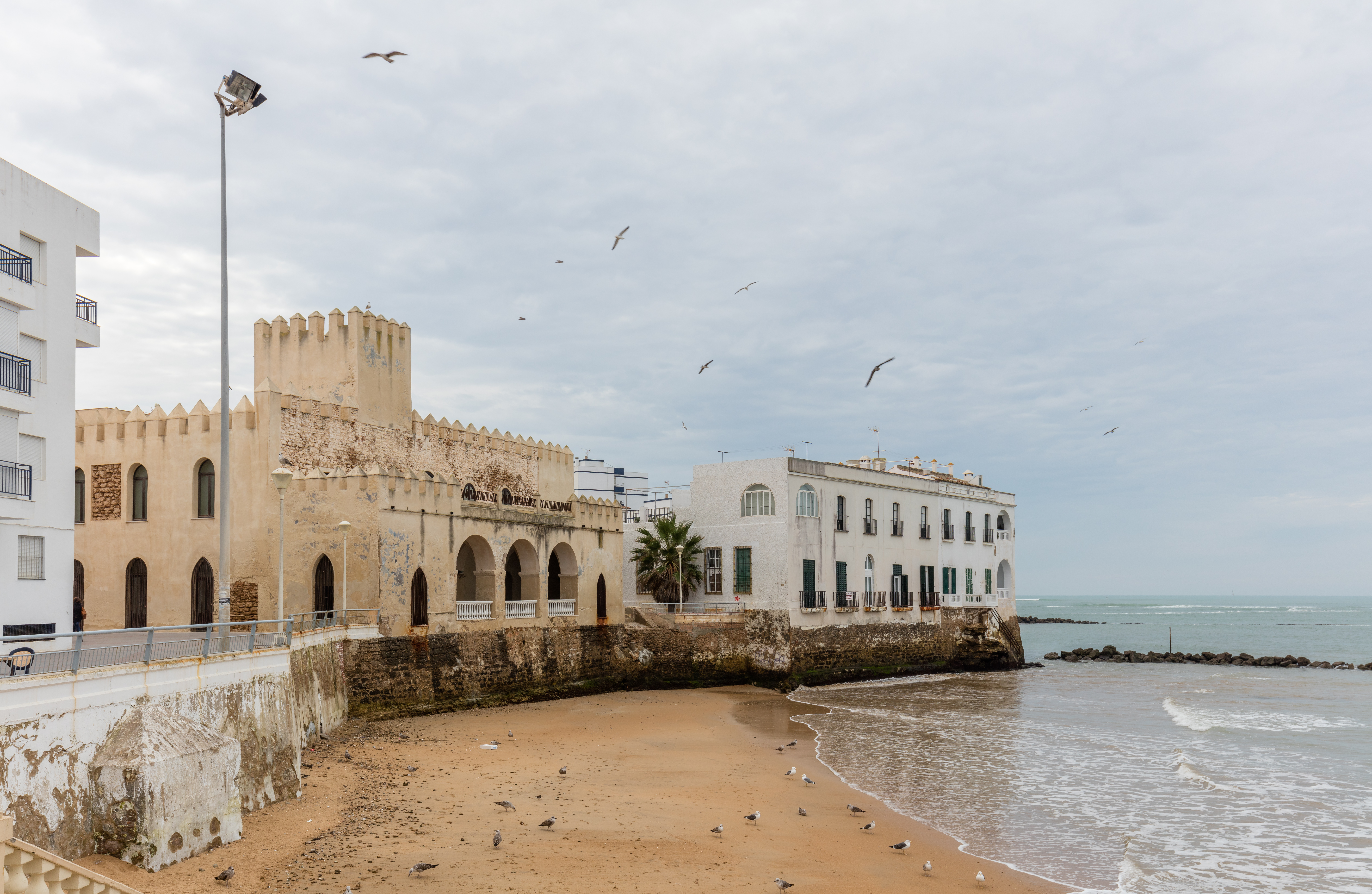 Chipiona castle, Spain